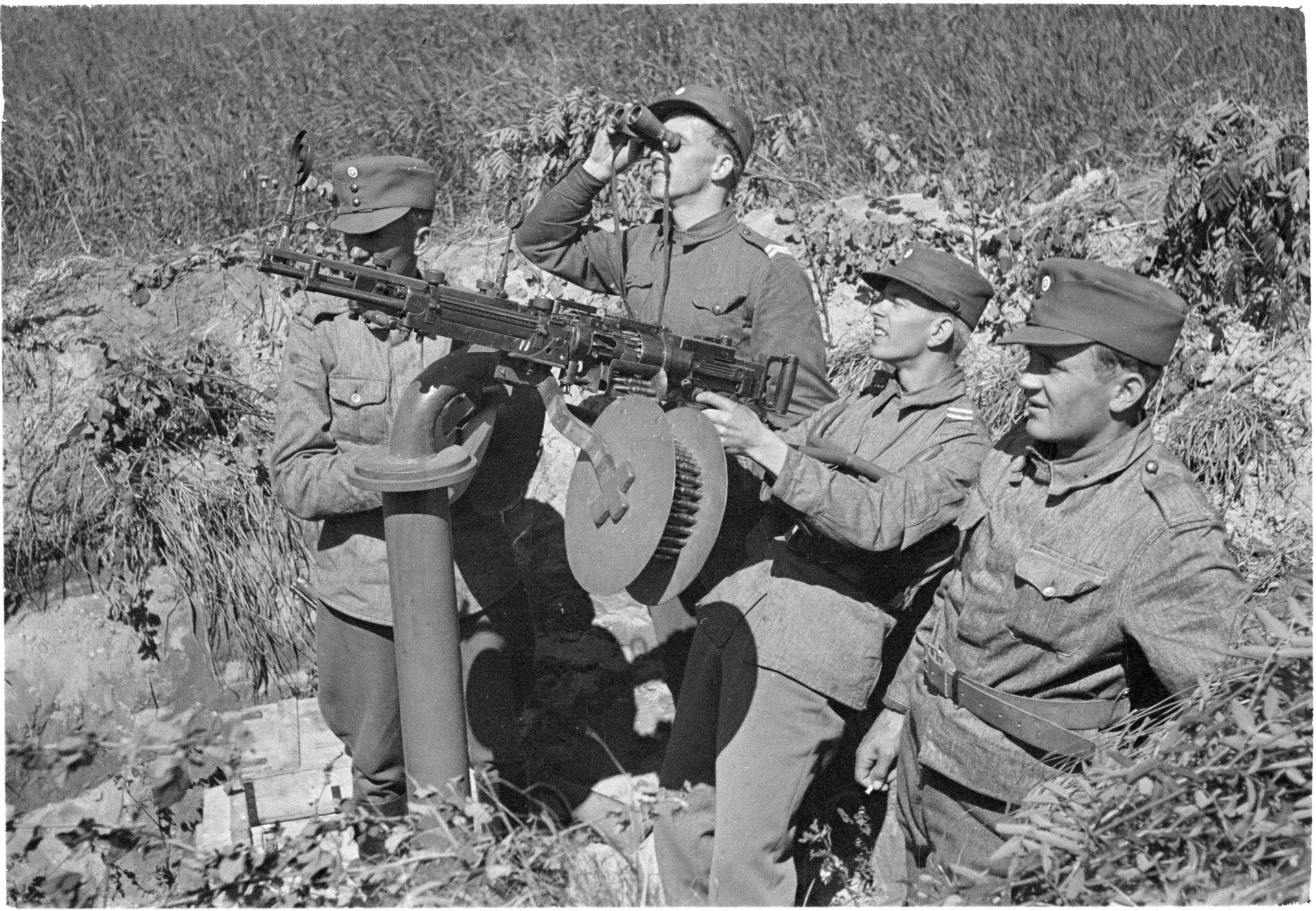 Doubled ShKAS machine gun as an anti-aircraft weapon in Lappeenranta.